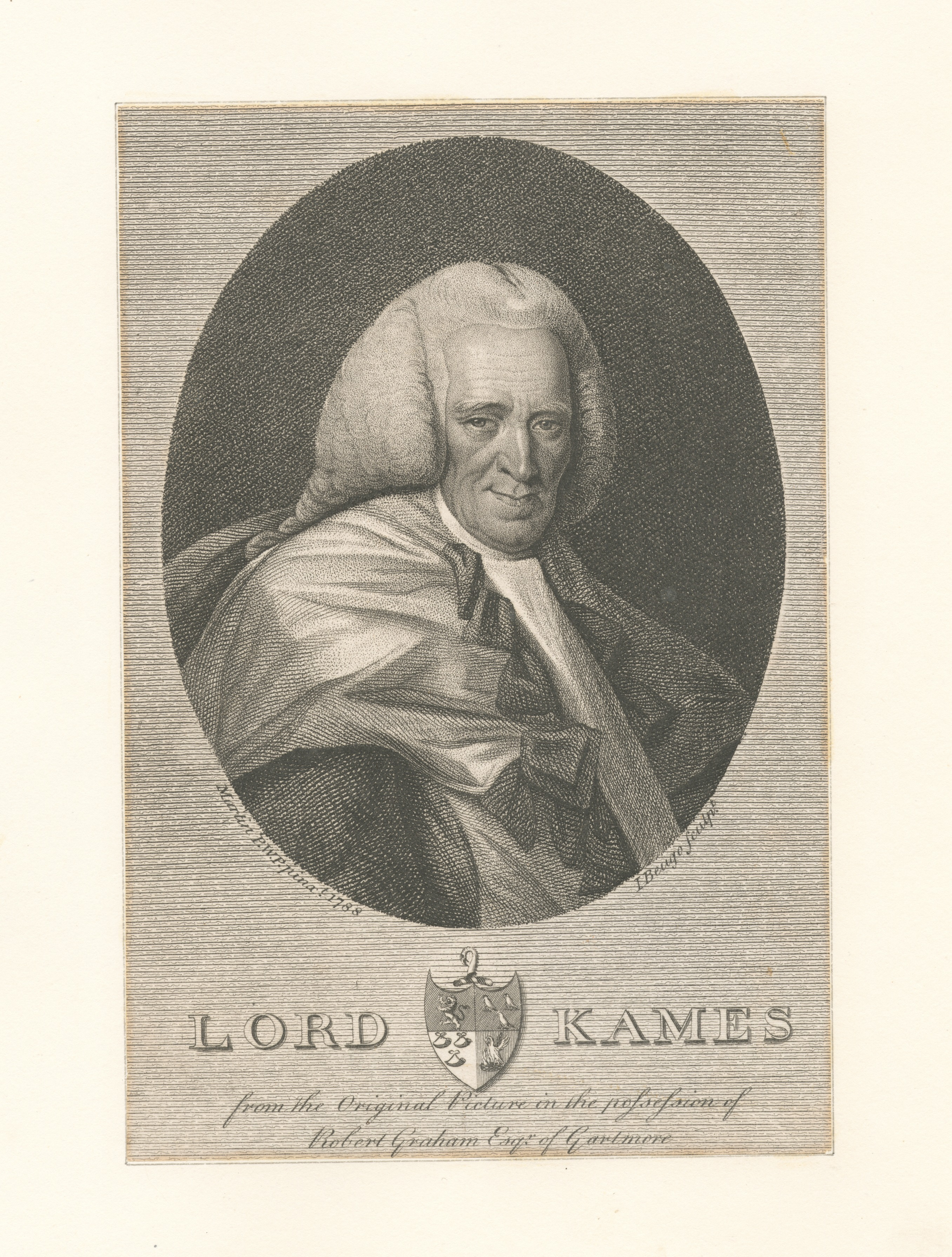 EM3216 Martin, P. W. P. pinxt.